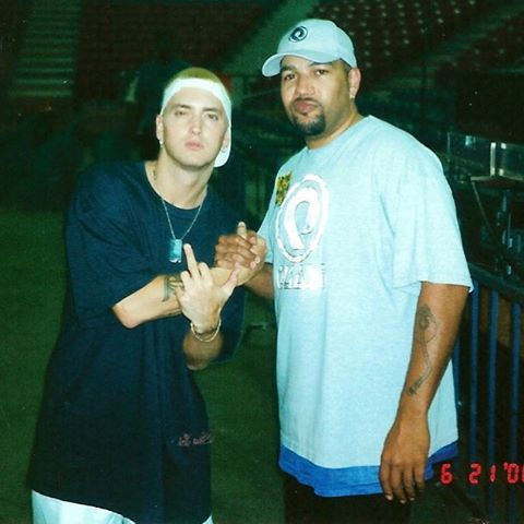 #tbt w/ @eminem Up In Smoke Tour at ARCO Arena. I DJ'd the opening set before the concert started. 17k people. Pretty cool...